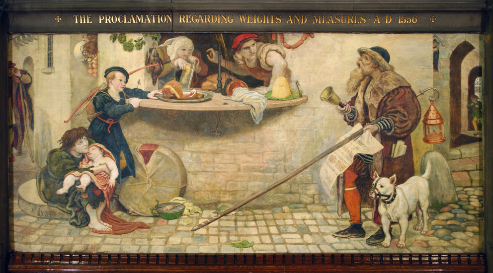 "The Proclamation regarding Weights and Measures A.D. 1556" by Ford Madox Brown, a mural at Manchester Town Hall.